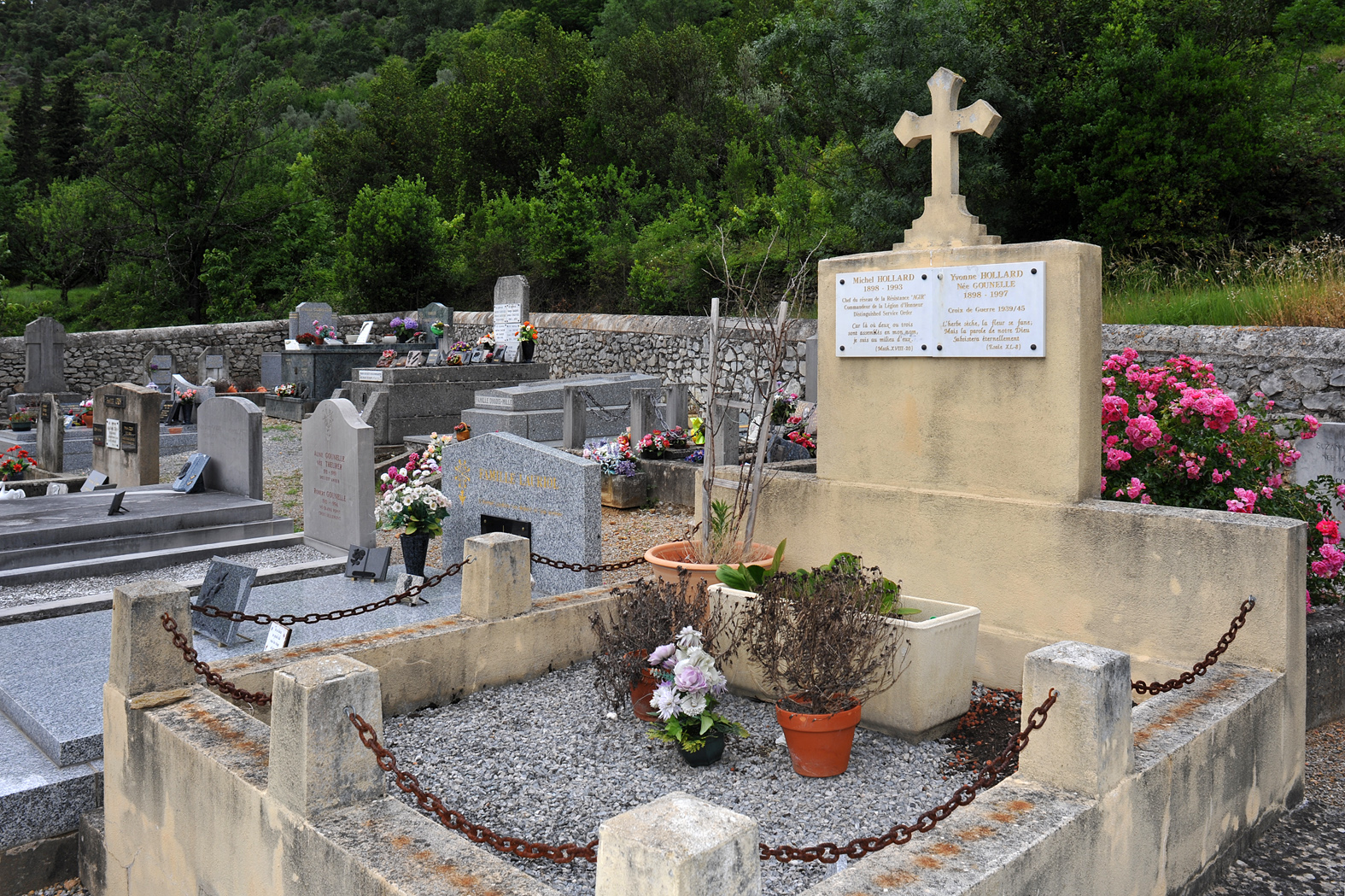 Cemetery of Gorniès; Hérault, France. Grave of Michel and Yvonne Hollard.